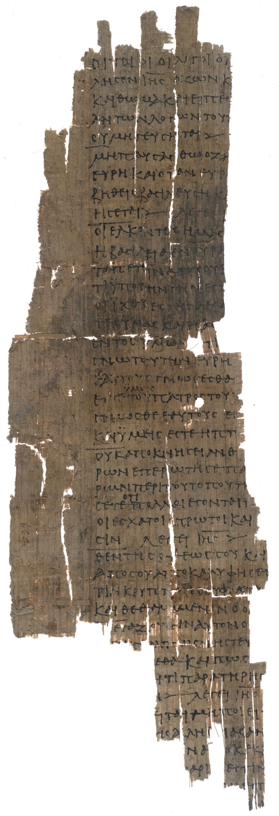 fragment of papyrus scroll, side recto